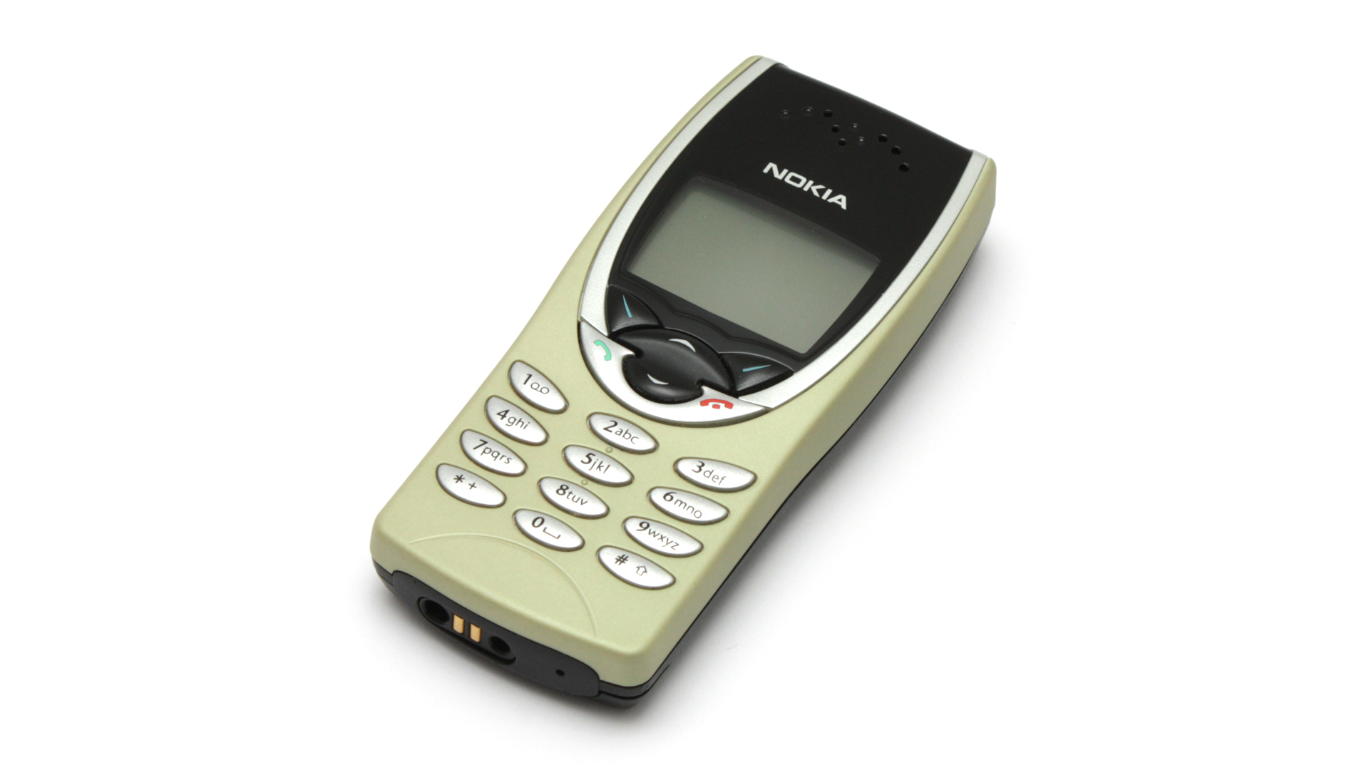 Nokia 8210 in light cover.